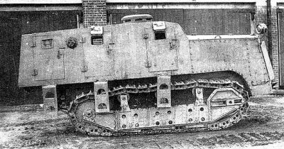 Soviet experimental „landing tank“ (APC) D-14 during the state tests, right view.